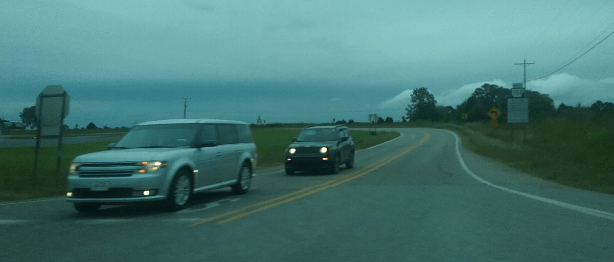 Arkansas Highway 157 in Pleasant Plains, Arkansas. This photo was taken at the junction of US Route 167 and Arkansas Highway 157. Photo taken on 12/9/2017